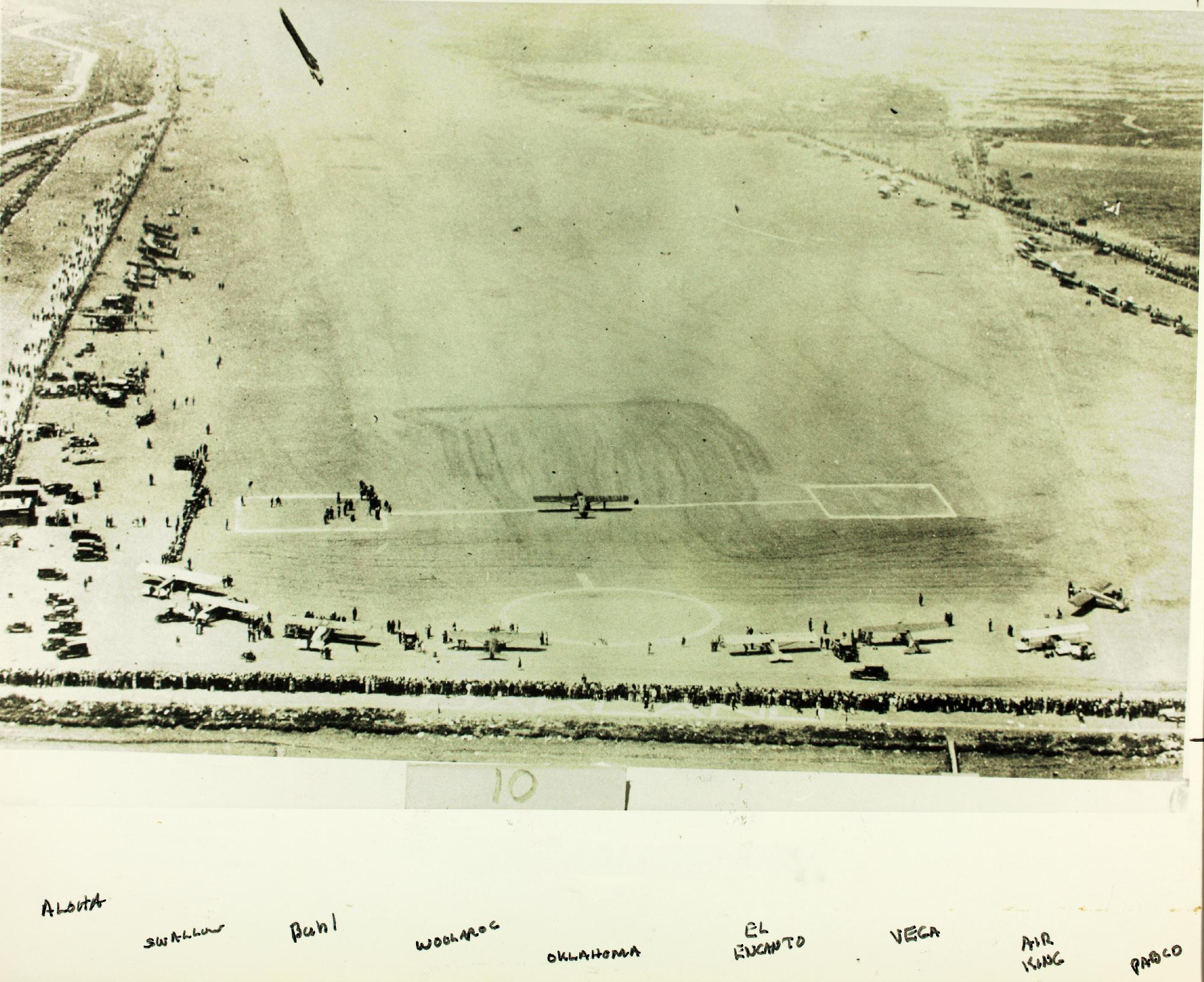 Catalog #: 10_0014580 Title: Dole Air Race Additional Information: Dole Air Race Tags: Dole Air Race, Dole Air Race Repository: San Diego Air and Space Museum Archive